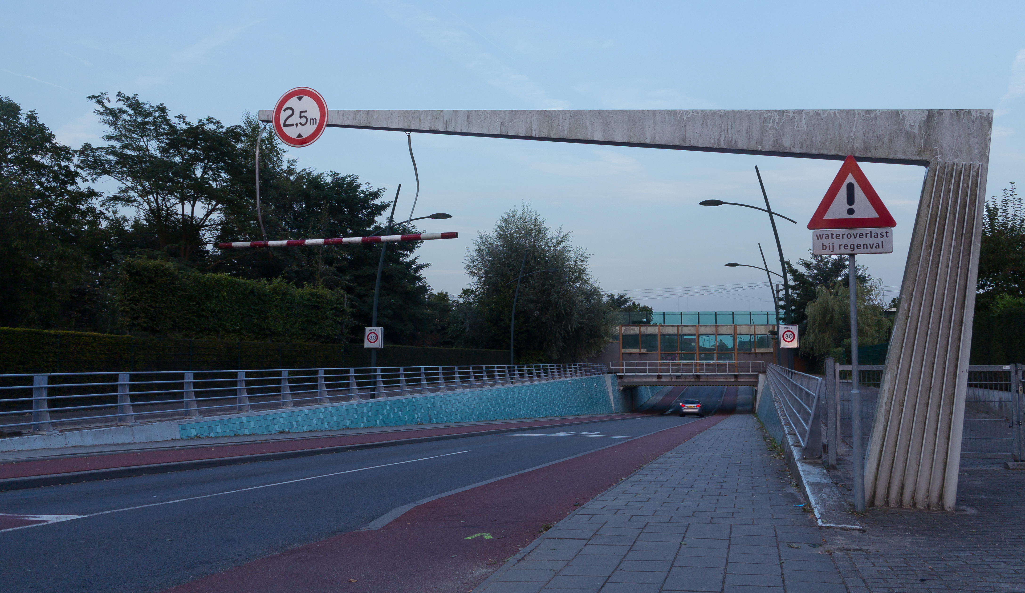 Elst, tunnel under the railway